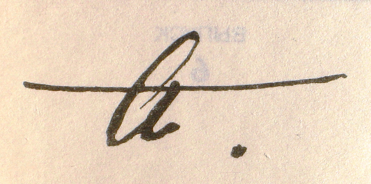 Russian poet Anna Akhmatova signature in his book.